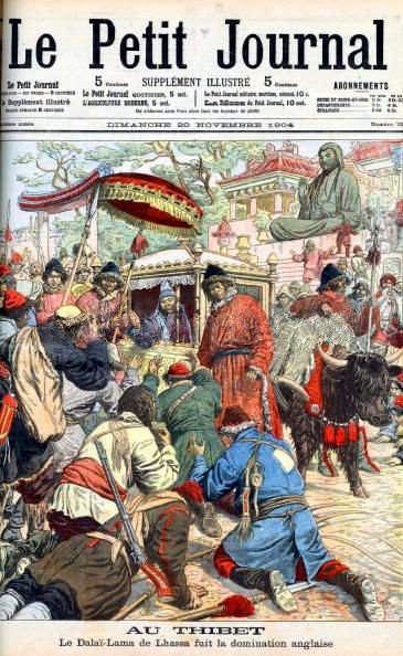 "The Dalai Lama leaving Lhassa because of english domination", front page of newspaper "Petit Journal" november 20, 1904.